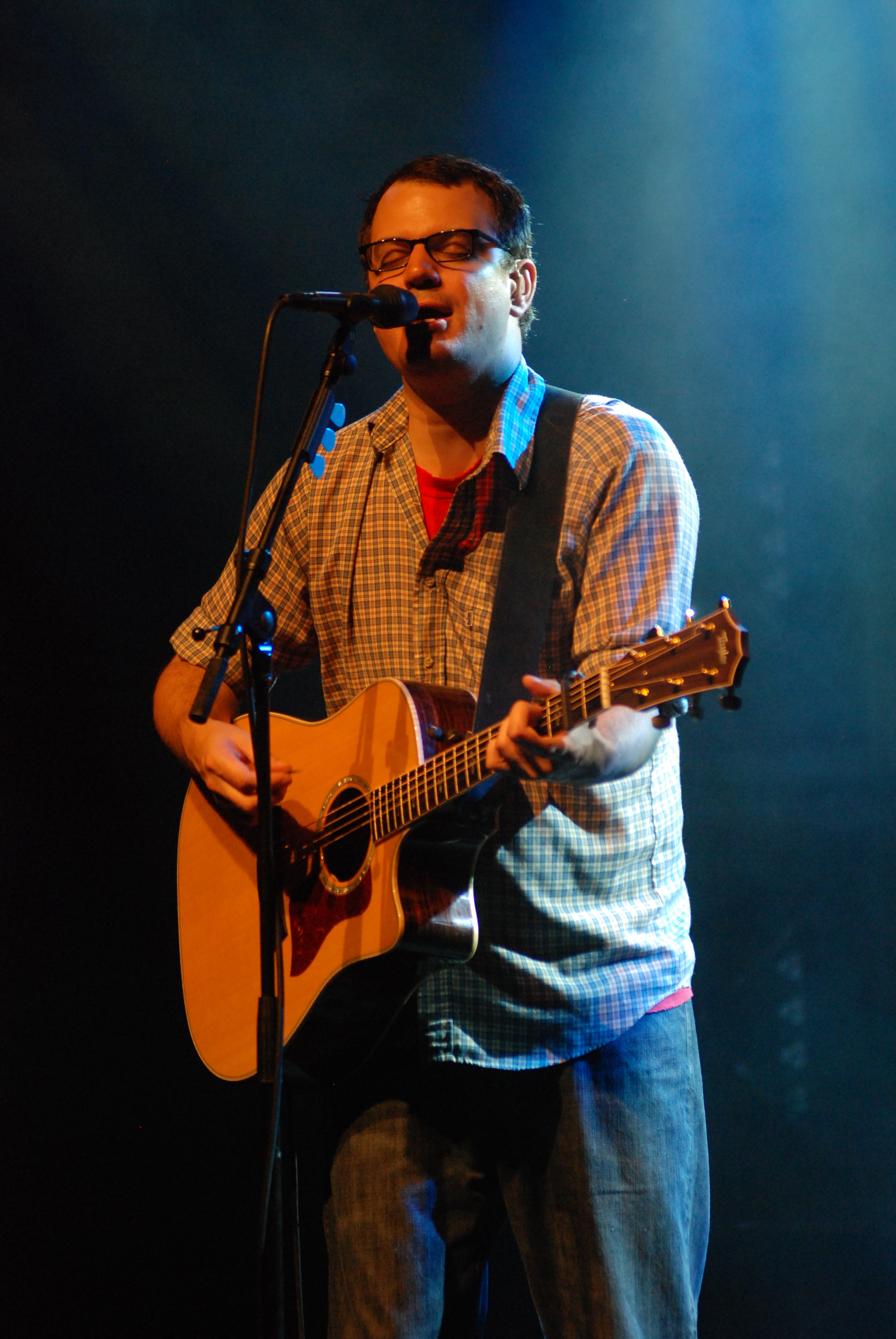 Taken in Maple Ridge, outside of Matthew Good's house near Maple Ridge, British Columbia.